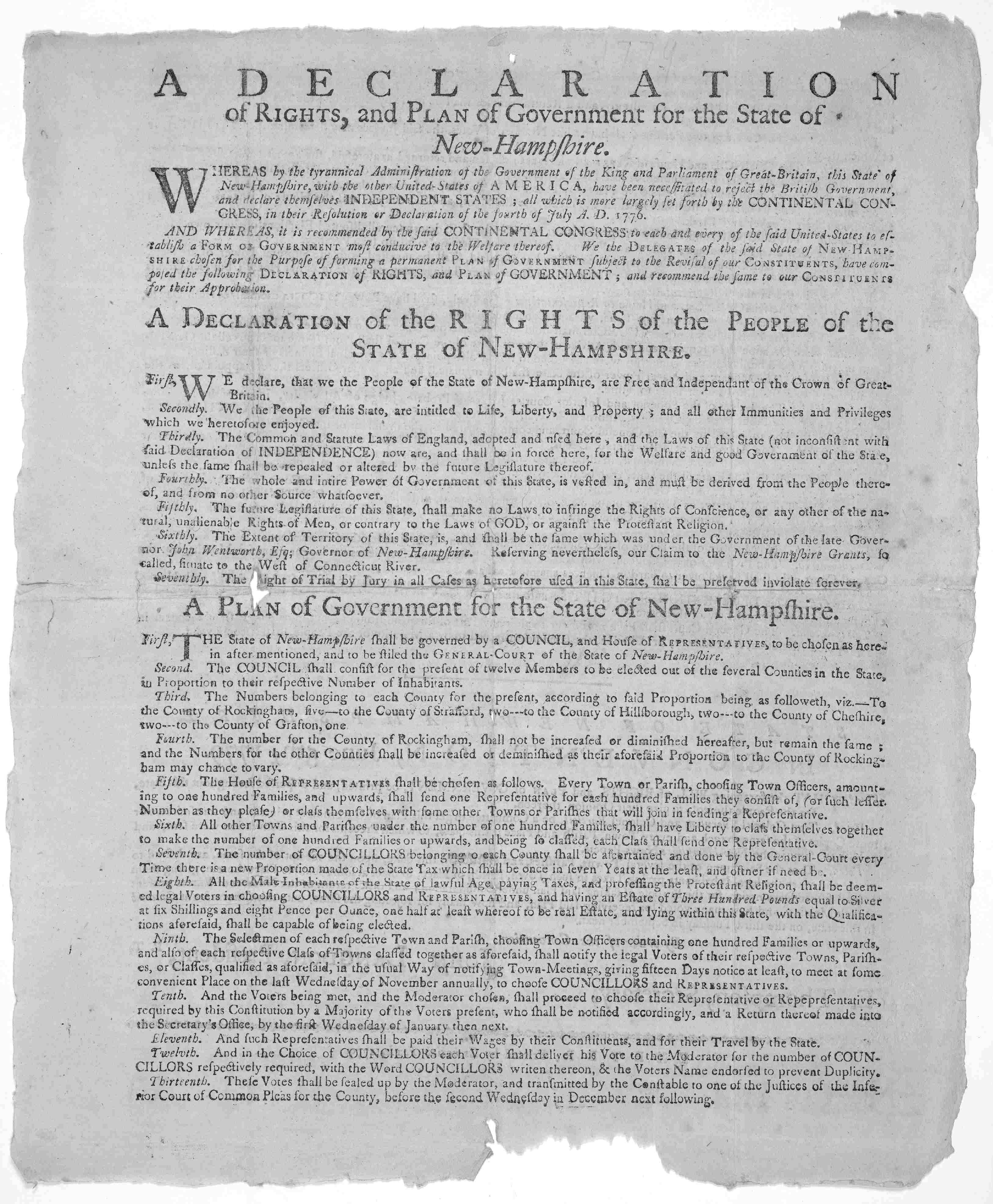 A Declaration of Rights and Plan of Government for the State of New-Hampshire. Broadsheet printed at Exeter, New Hampshire, by Zechariah Fowle in 1779 carrying statement by John Langdon, president of the state convention, 5 June 1779.[1] The Library of Congress, Washington, D. C.